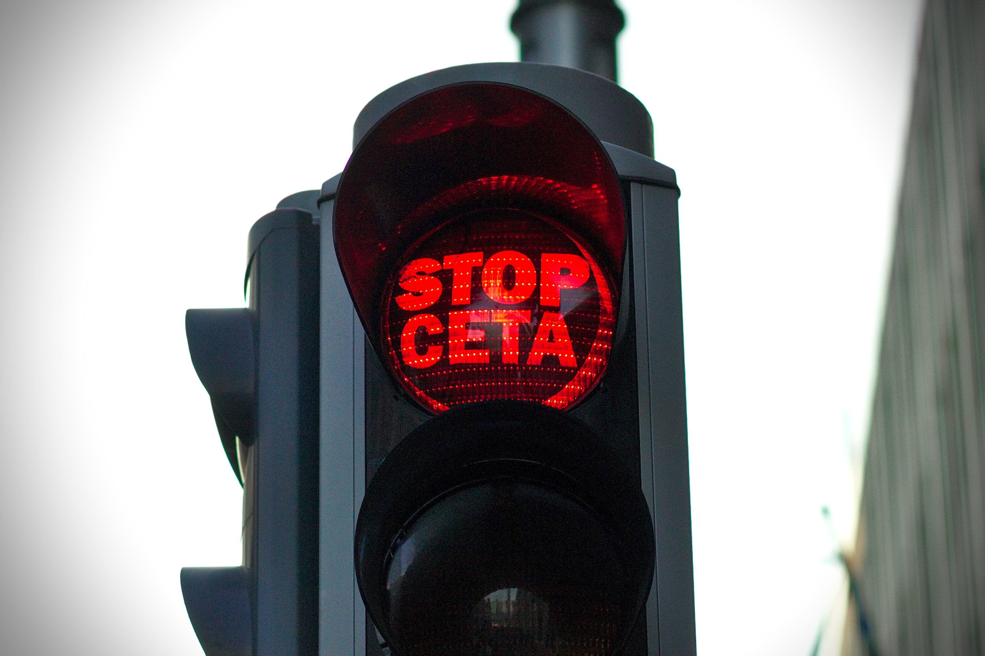 Protest in Brussels agains the TTIP and CETA free trade agreements.